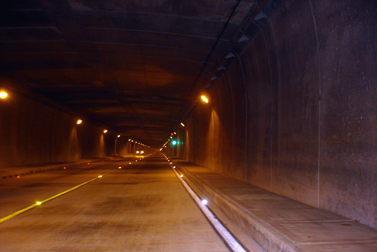 Picture captured by uploader on November, 2006